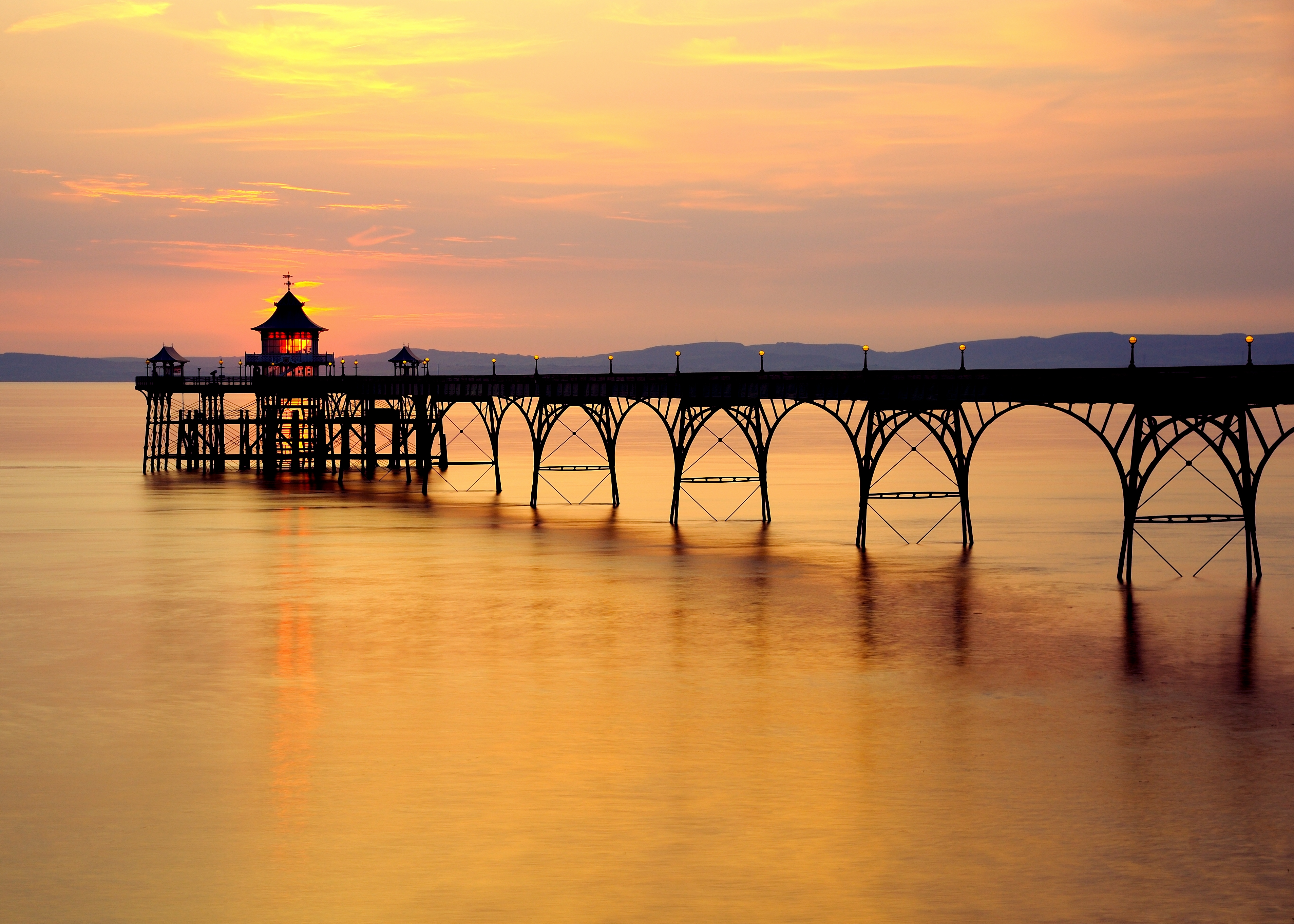 Clevendon pier. Grade 1 listed pier near Bristol, England.